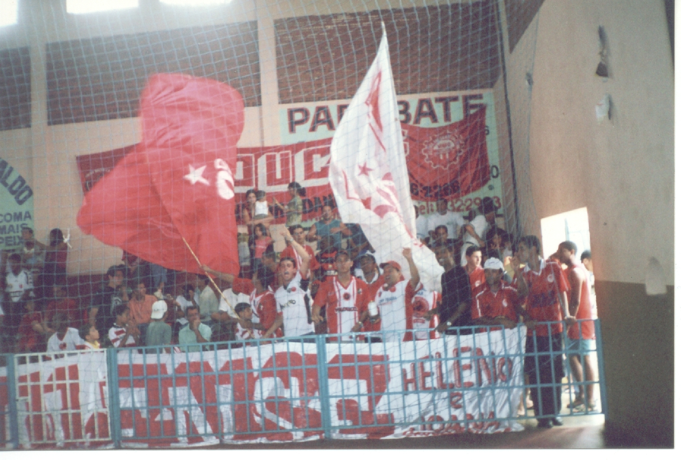 Torcida Viloucos.